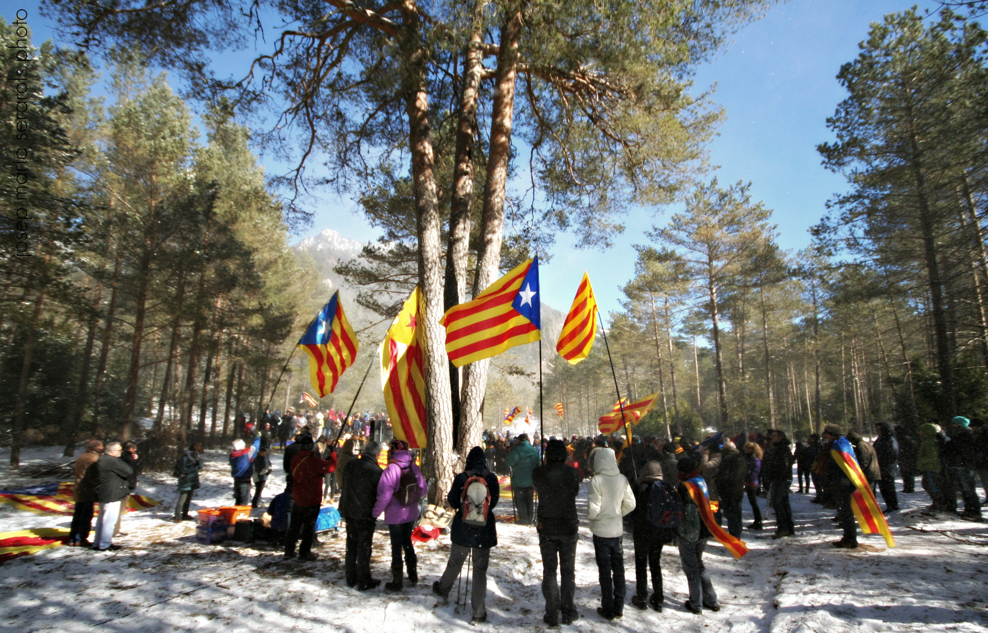 Commemorative event at Pi Jove de les Tres Branques following the death of Lluís Ballús (Berga activist), February 2015